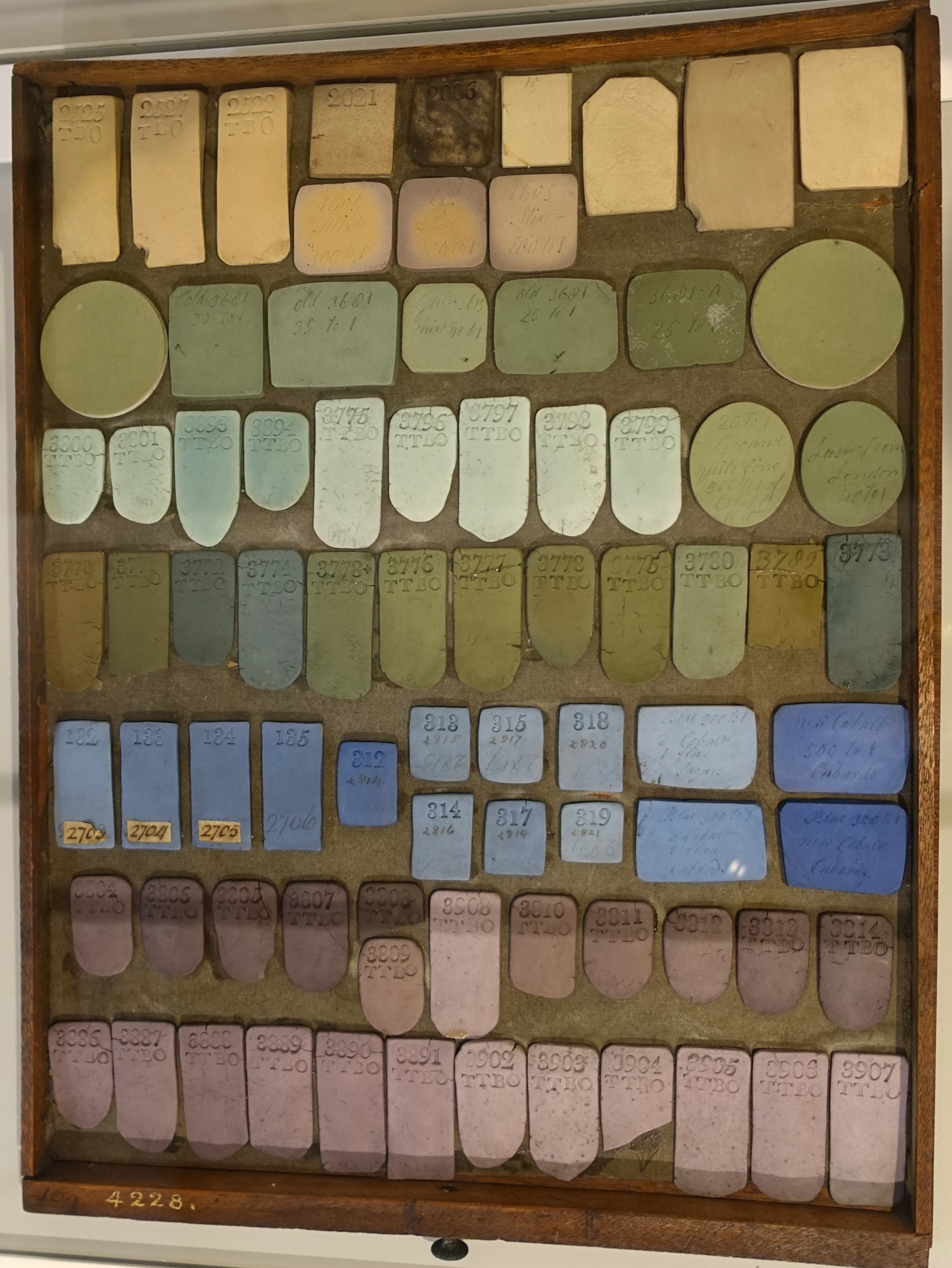 Exhibit in the Wedgwood Museum - Barlaston, Stoke-on-Trent, England.